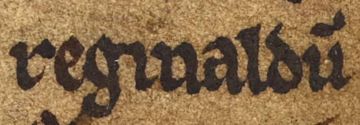 An excerpt from folio 39r of British Library Cotton Julius A VII (the Chronicle of Mann). The excerpt reads in Latin "Reginaldum". The excerpt refers to Rǫgnvaldr Óláfsson, King of the Isles (fl. 1164).